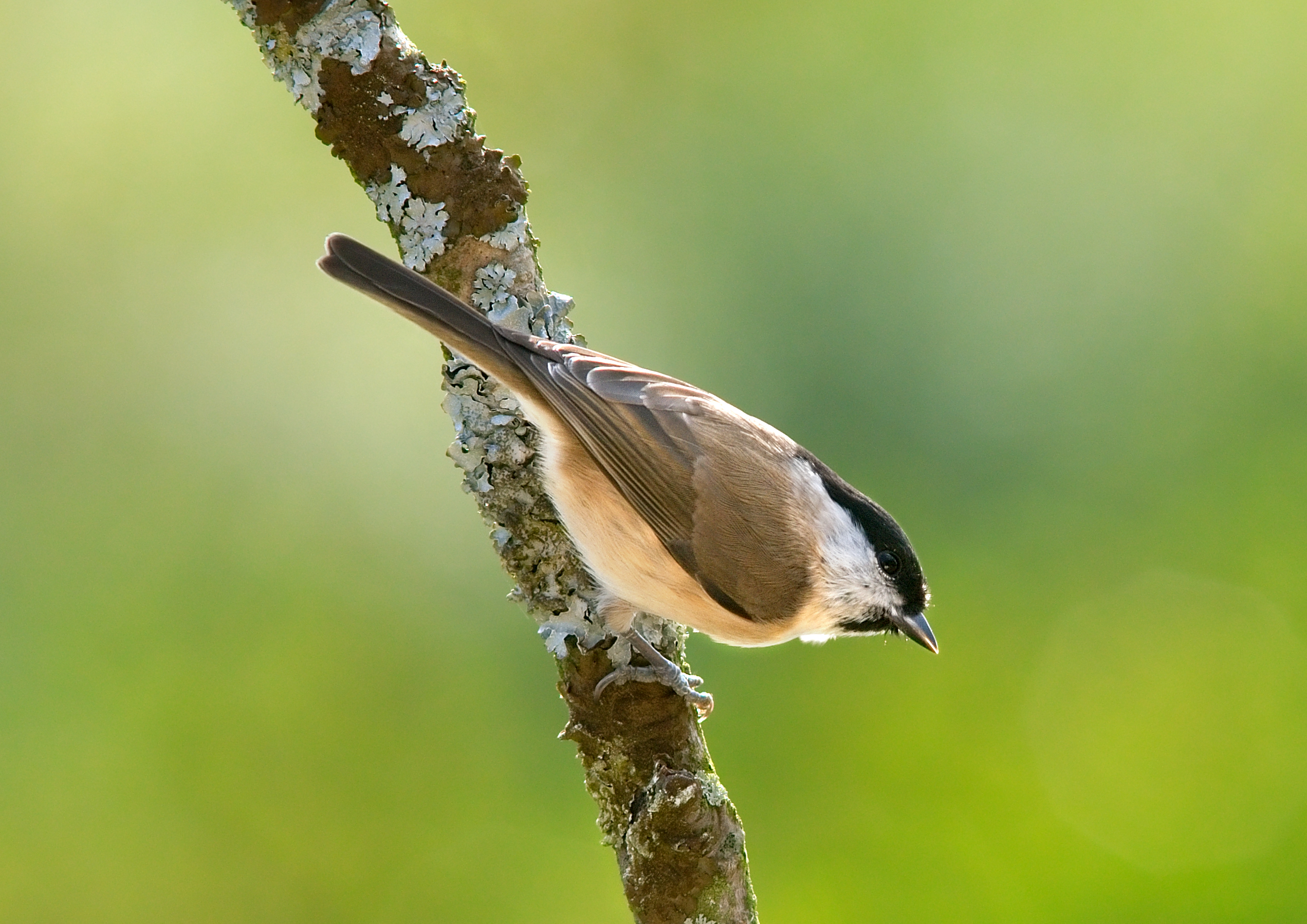 Marsh Tit Poecile palustris